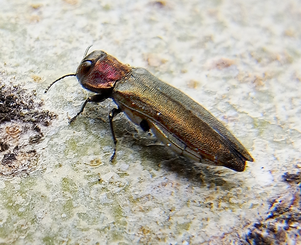 Agrilus pratensis from Southern Hungary near Kelebia on poplar at 2012-05-24